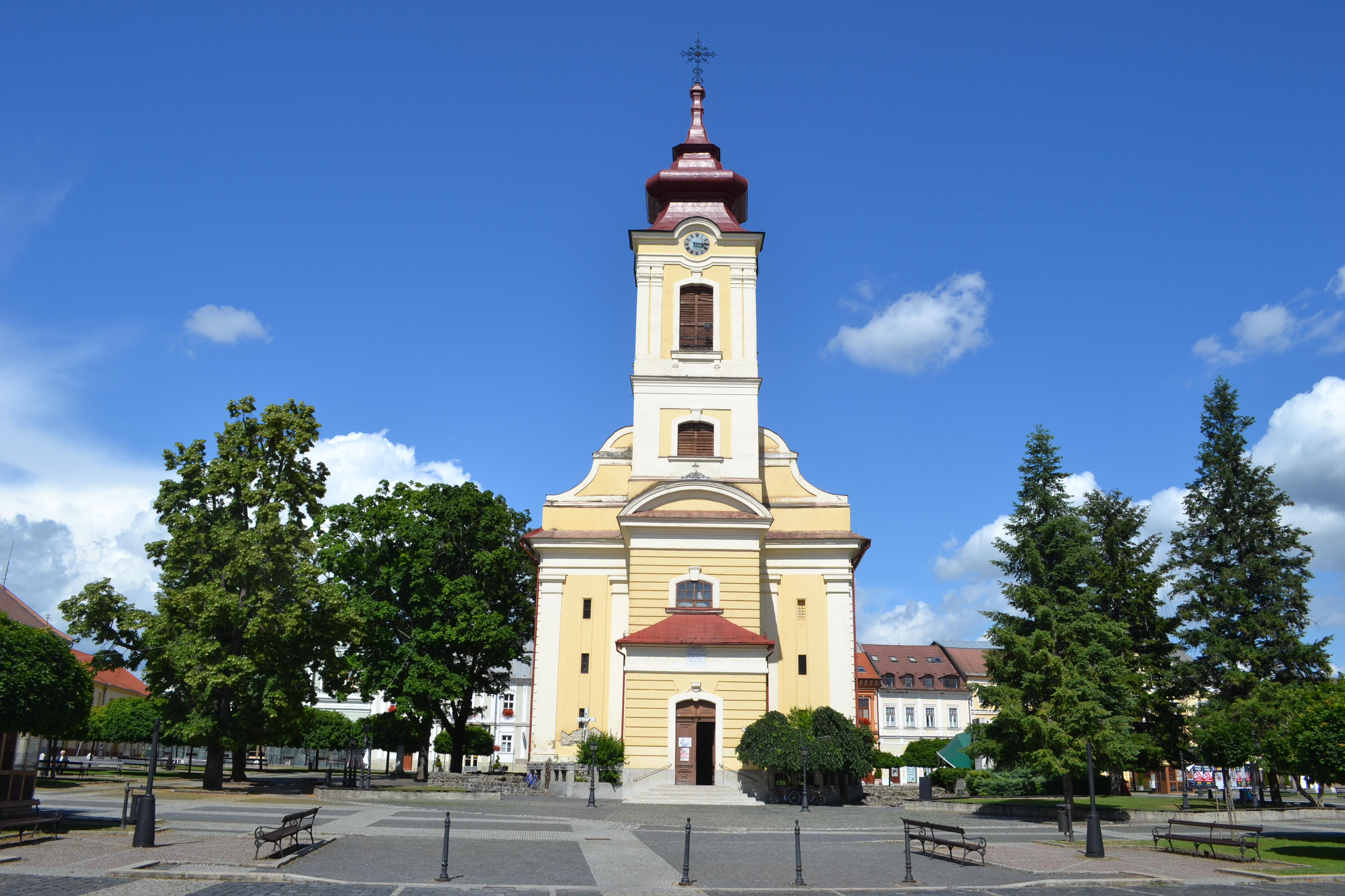 Roman Catholic Church of St. John the Baptist is a classical church built between 1774 - 1790 on the site of an old gothic church.